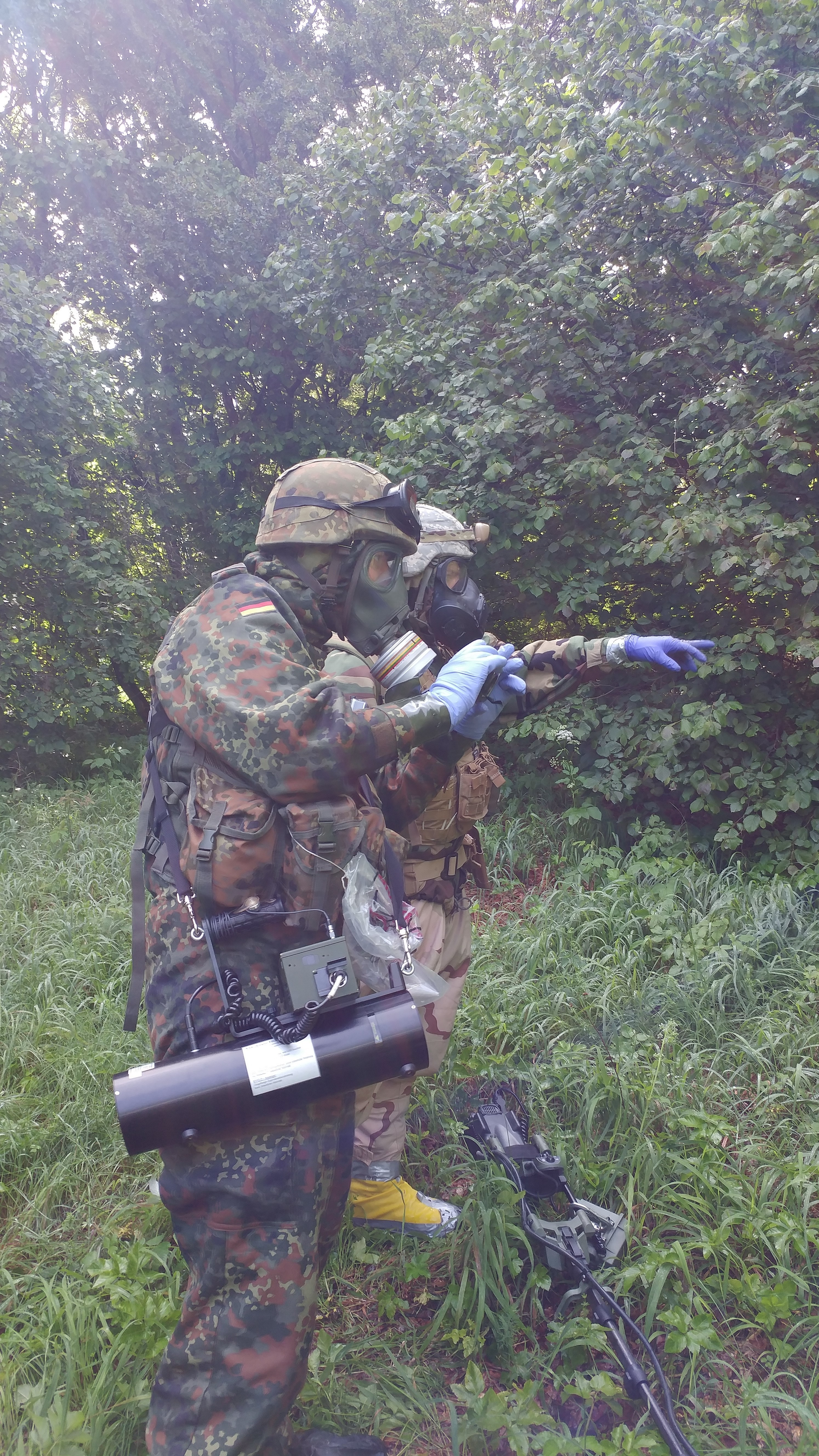 German Soldier Sgt. 1st Class Serzisko and U.S. Sgt. Clinton Vandiver discussed the safest way to approach a potential chemical mortar “firing point” during Operation Iron Mask hosted by the 750th CBRN Defense Battalion in Baden-Wurttemberg, Germany June 27. The purpose of this multi-national annual training exercise revolves around improving CBRN interoperability among NATO allies from the U.S. and Europe.